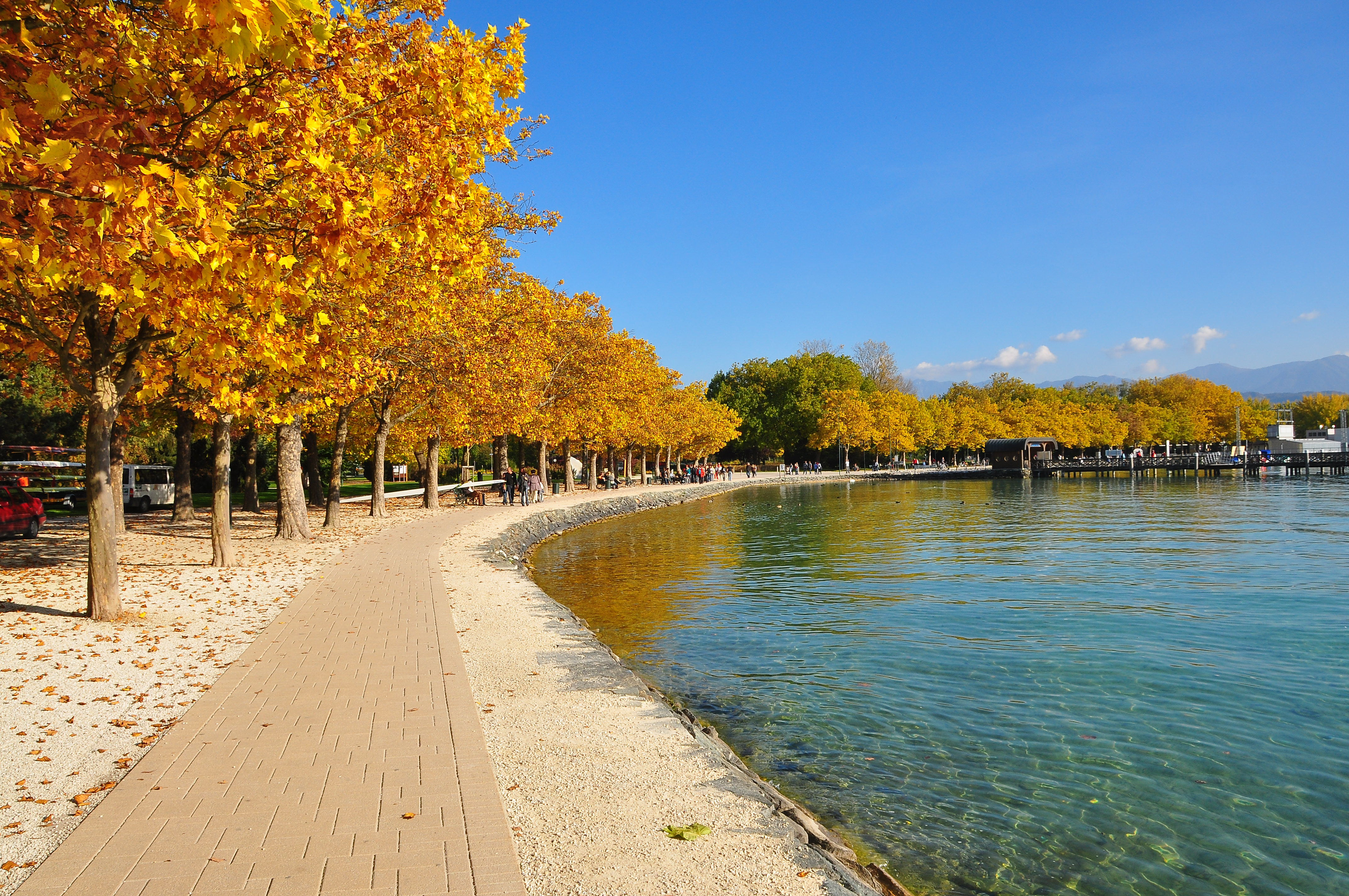 Friedelstrand in Gurlitsch, 12th district “Saint Martin”, capital Klagenfurt, Carinthia, Austria, EU